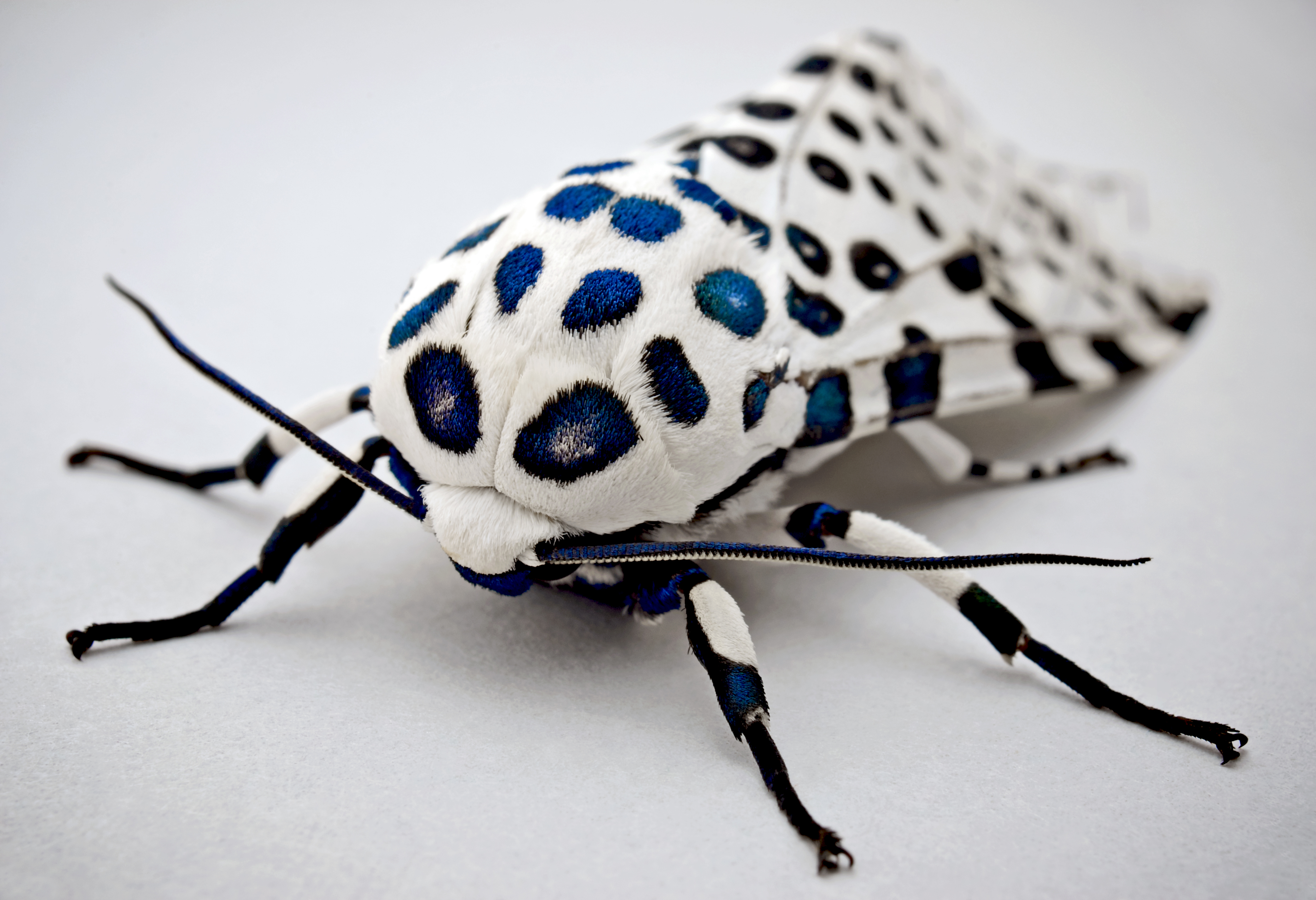 Giant leopard moth found at 1AM near a light bulb in Newport News, Virginia.